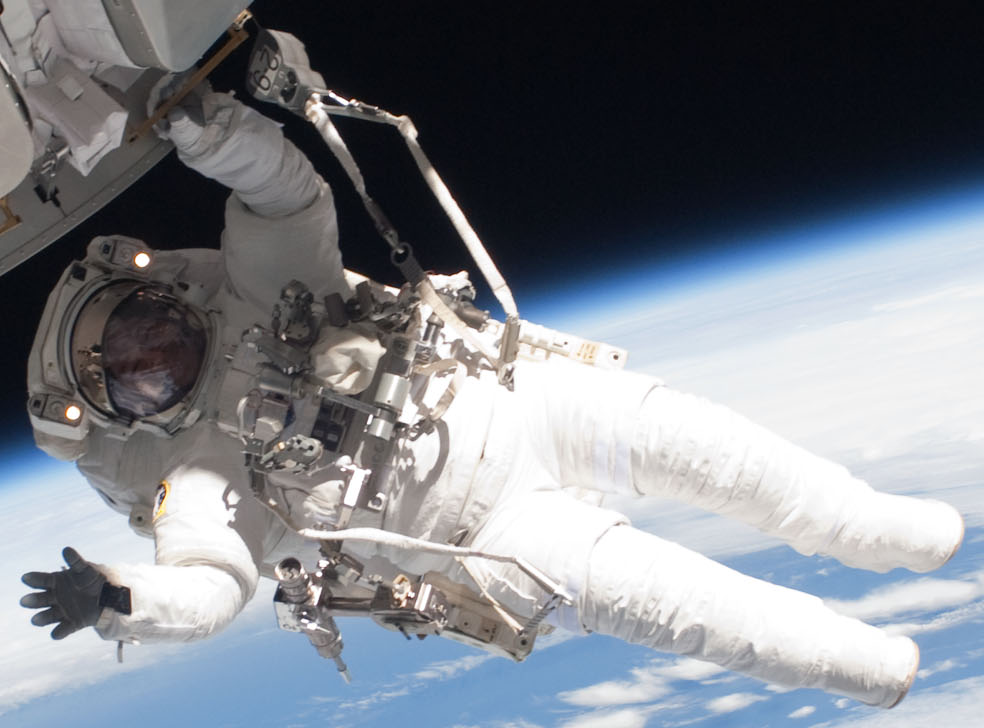 NASA astronaut Nicholas Patrick, STS-130 mission specialist, participates in the mission's third and final session of extravehicular activity (EVA) as construction and maintenance continue on the International Space Station. During the five-hour, 48-minute spacewalk, Patrick and astronaut Robert Behnken (out of frame), mission specialist, completed all of their planned tasks, removing insulation blankets and removing launch restraint bolts from each of the Cupola's seven windows.